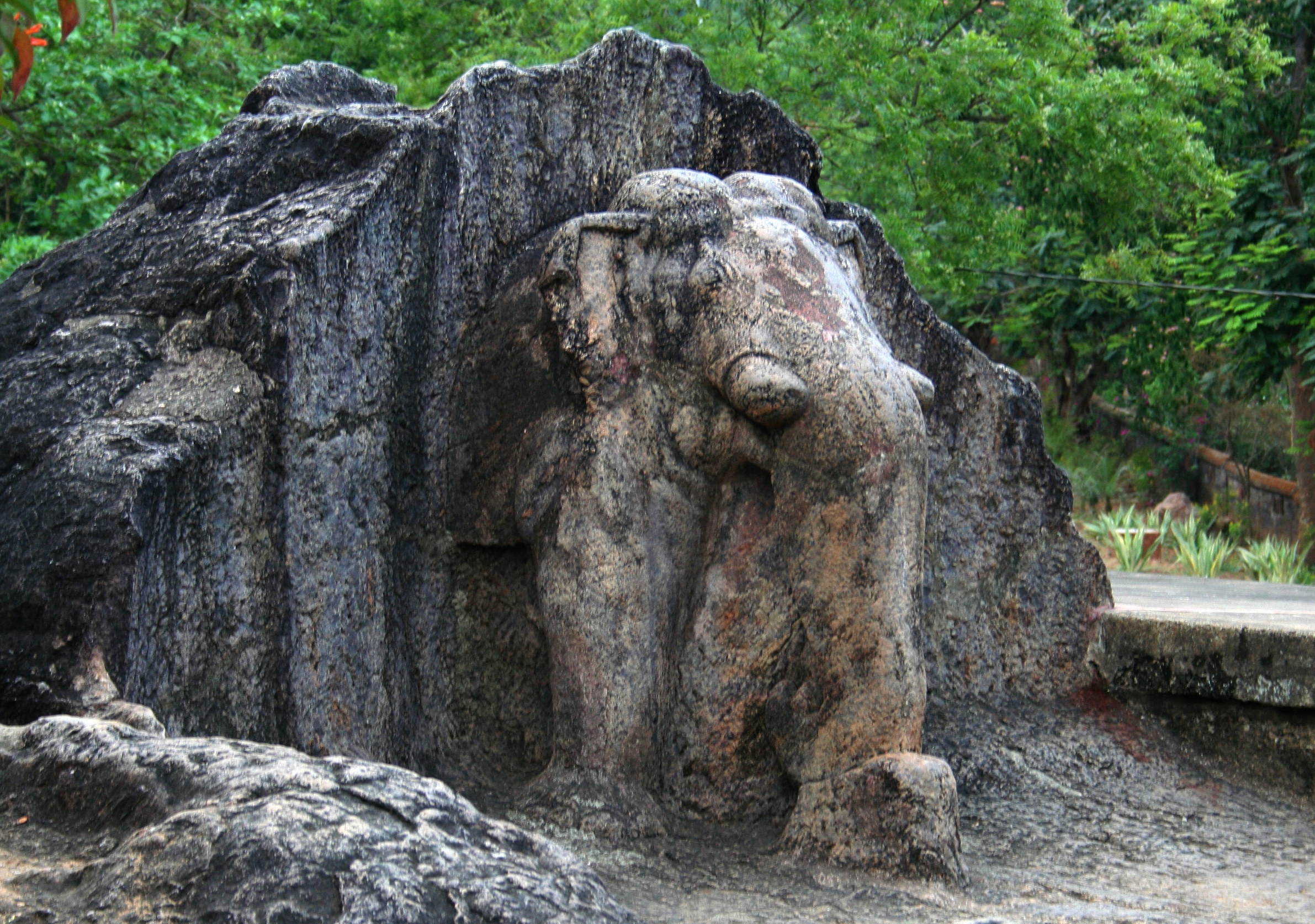 Rock inscription of the edicts of Asoka and the sculpture of elephant